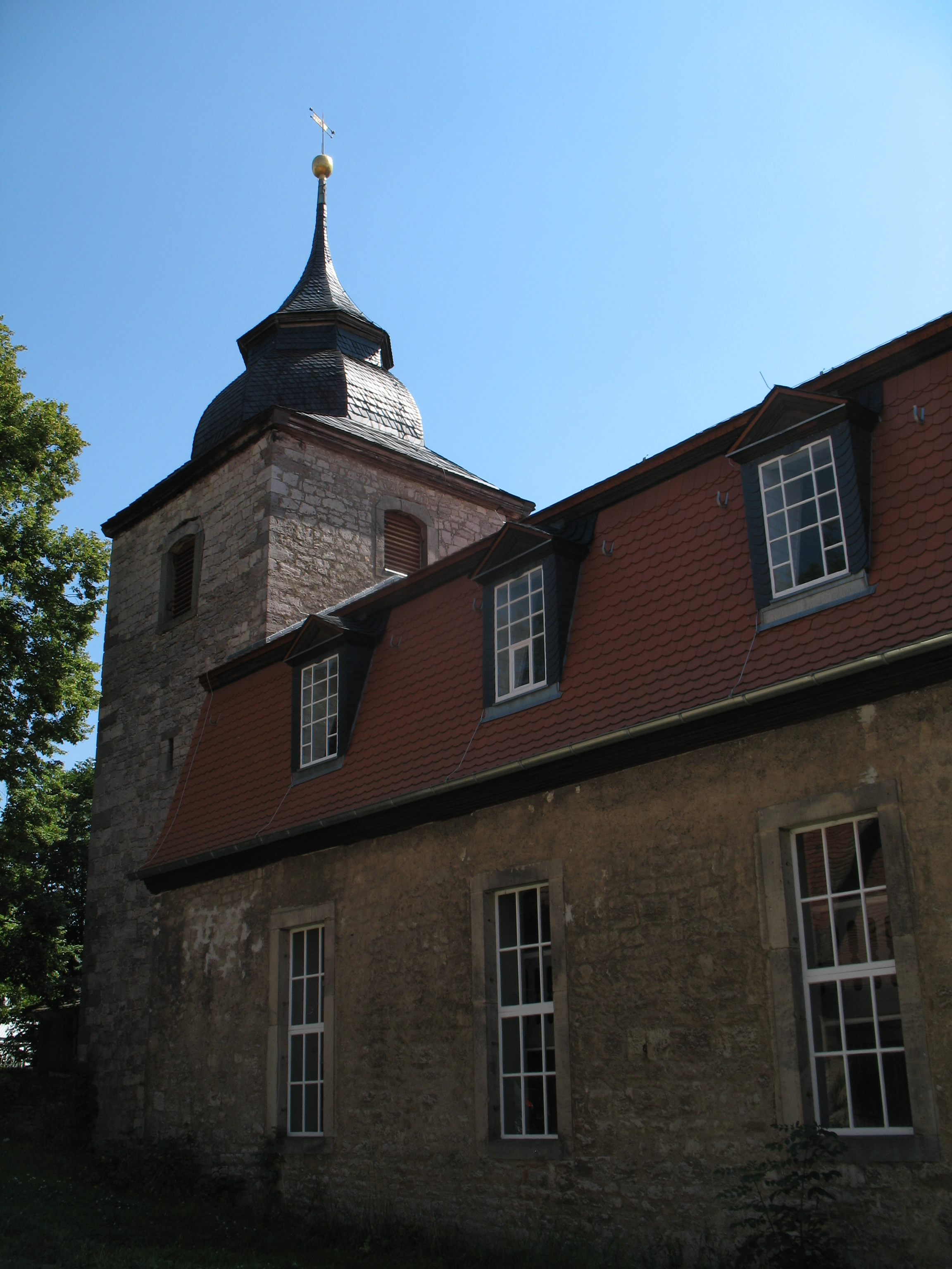 Church in Legefeld, Thuringia, Germany